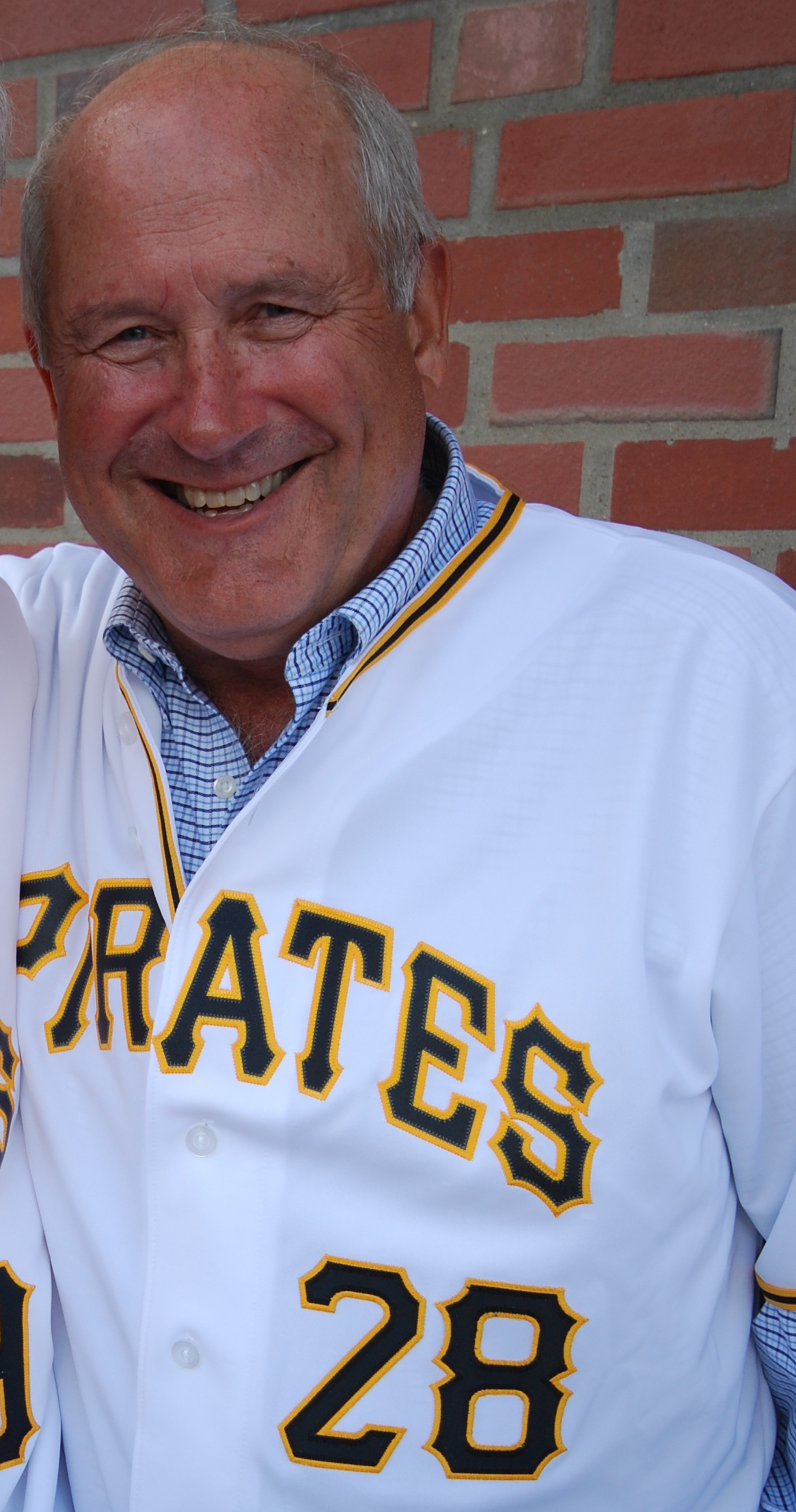 Former Pittsburgh Pirates pitcher Steve Blass at Forbes Field 100th Anniversary Event - PNC Park June 30, 2009